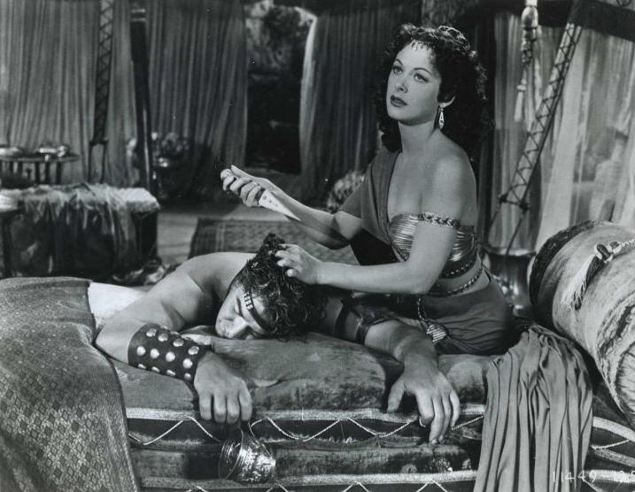 Film still for Samson and Delilah (1949).